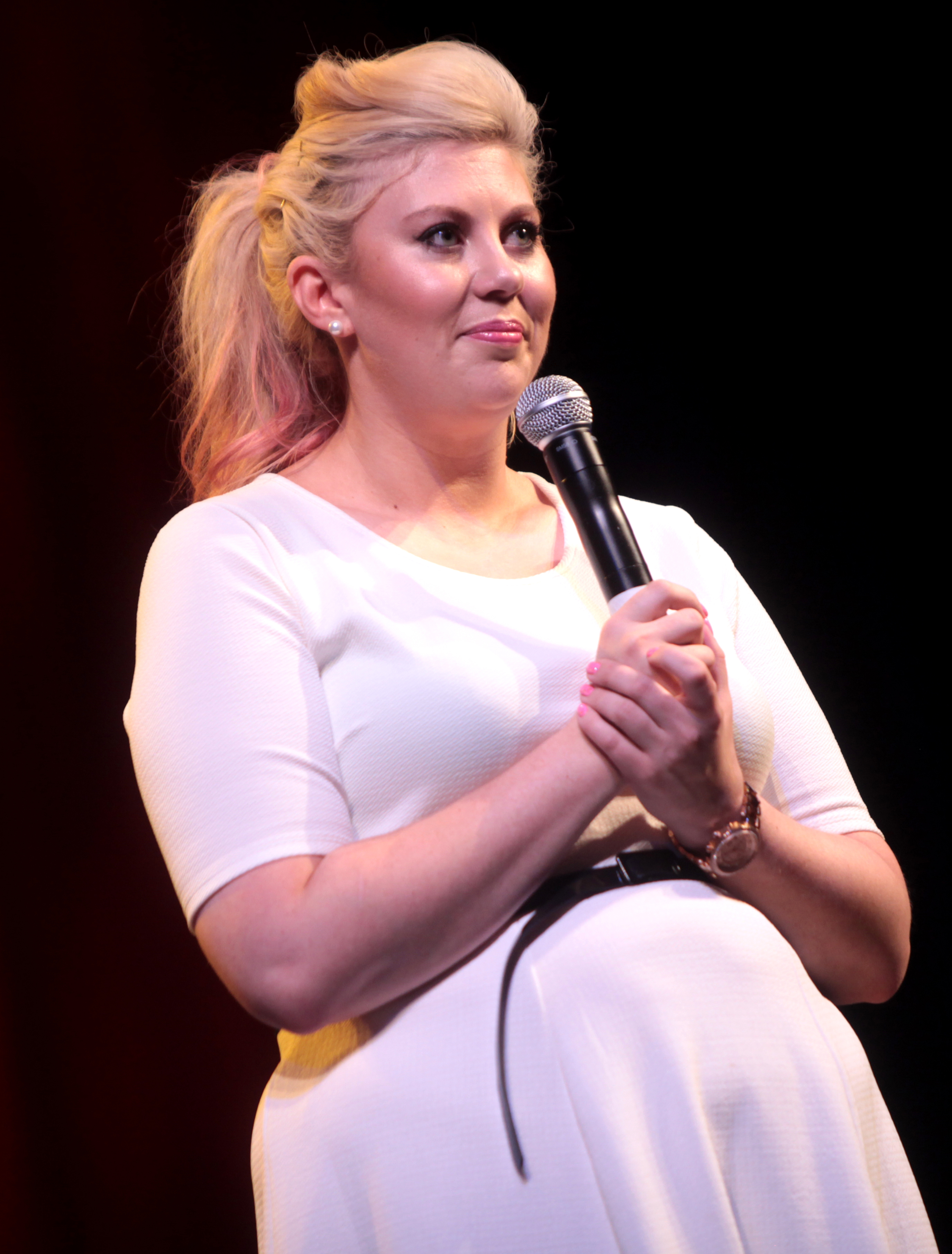 Louise Pentland speaking at the 2014 VidCon on June 28, 2014.